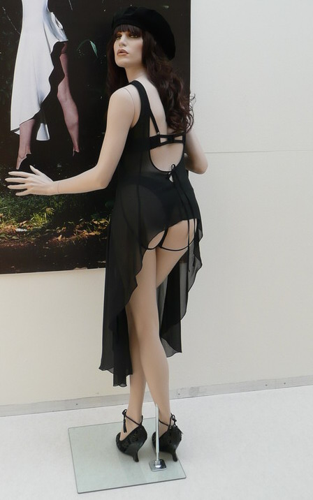 The famous ‘bare buttock dress'